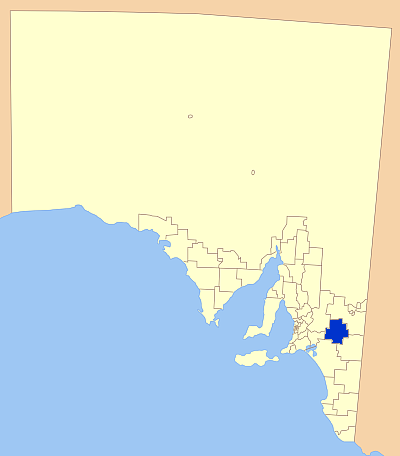 Modification of Astrokey44's original map found here: Image:SA_LGA_blank.png Position of Karoonda East Murray Council